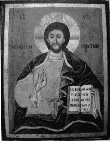 Christ Pantokrator Icon by Asterios Anagnostos in Saint George Chuch in Galatista